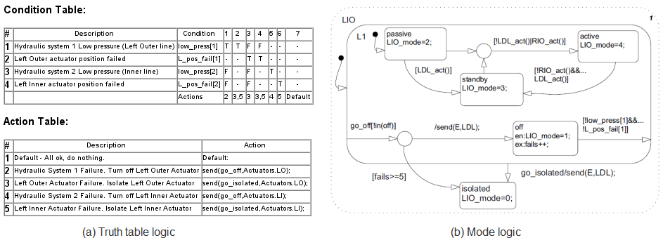 This is a truth table and state chart for a fault detection and isolation system connected to an aircraft elevator controller. Both the table and the state chart are HTML representations.